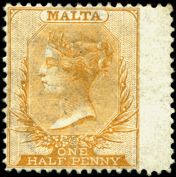 Malta halfpence stamp of ca. 1863, with a wing margin